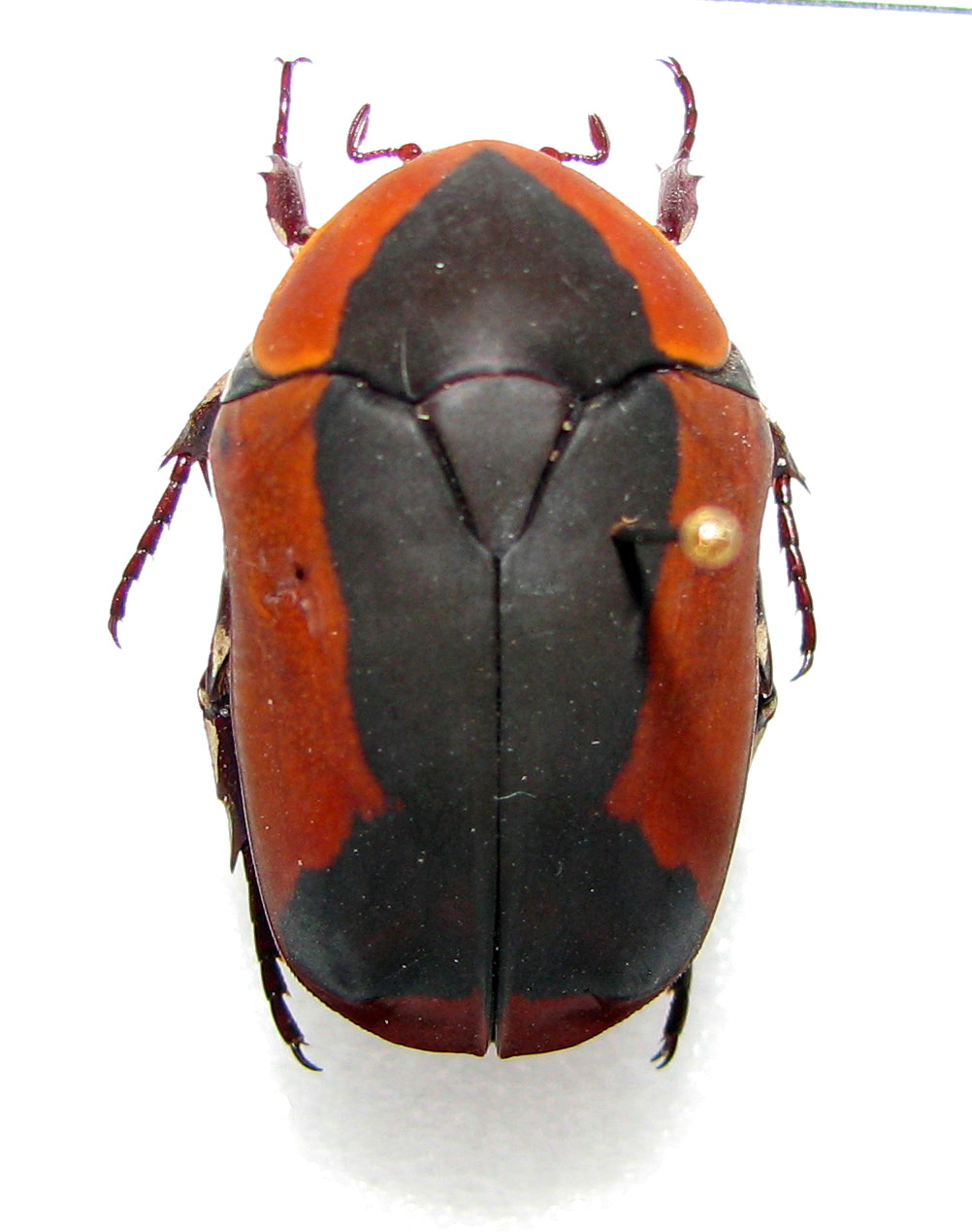 Preserved Pachnoda ephippiata